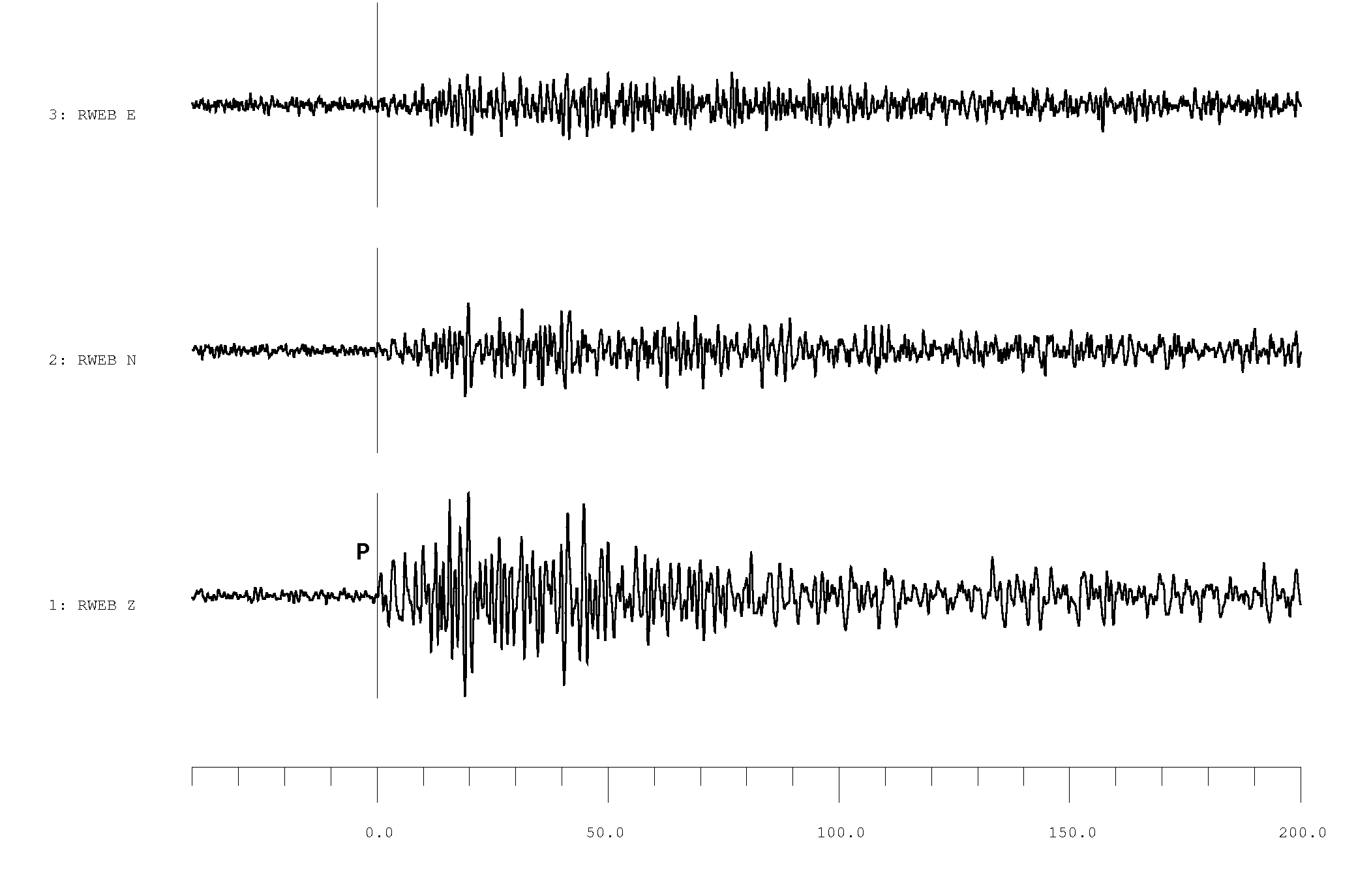 Example of the coda of a seismic wave: 200 s of the coda are shown after the P wave arrival of a teleseismic event